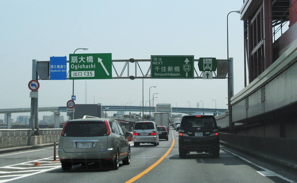 Ogiohashi Interchange on the Metropolitan Expressway Route C2